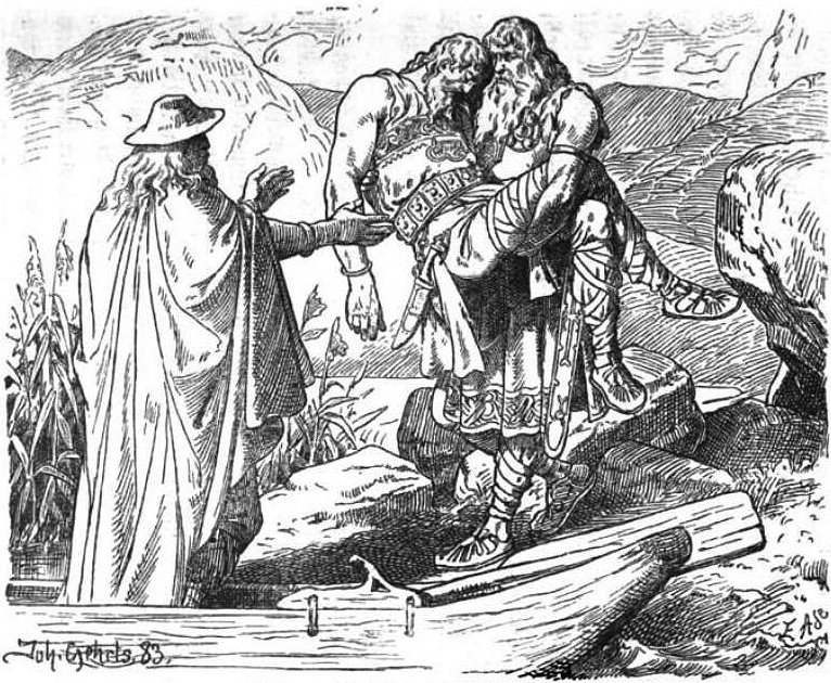 "Odin entführt Sinfjötlis Leiche" (1883) by Johannes Gehrts.